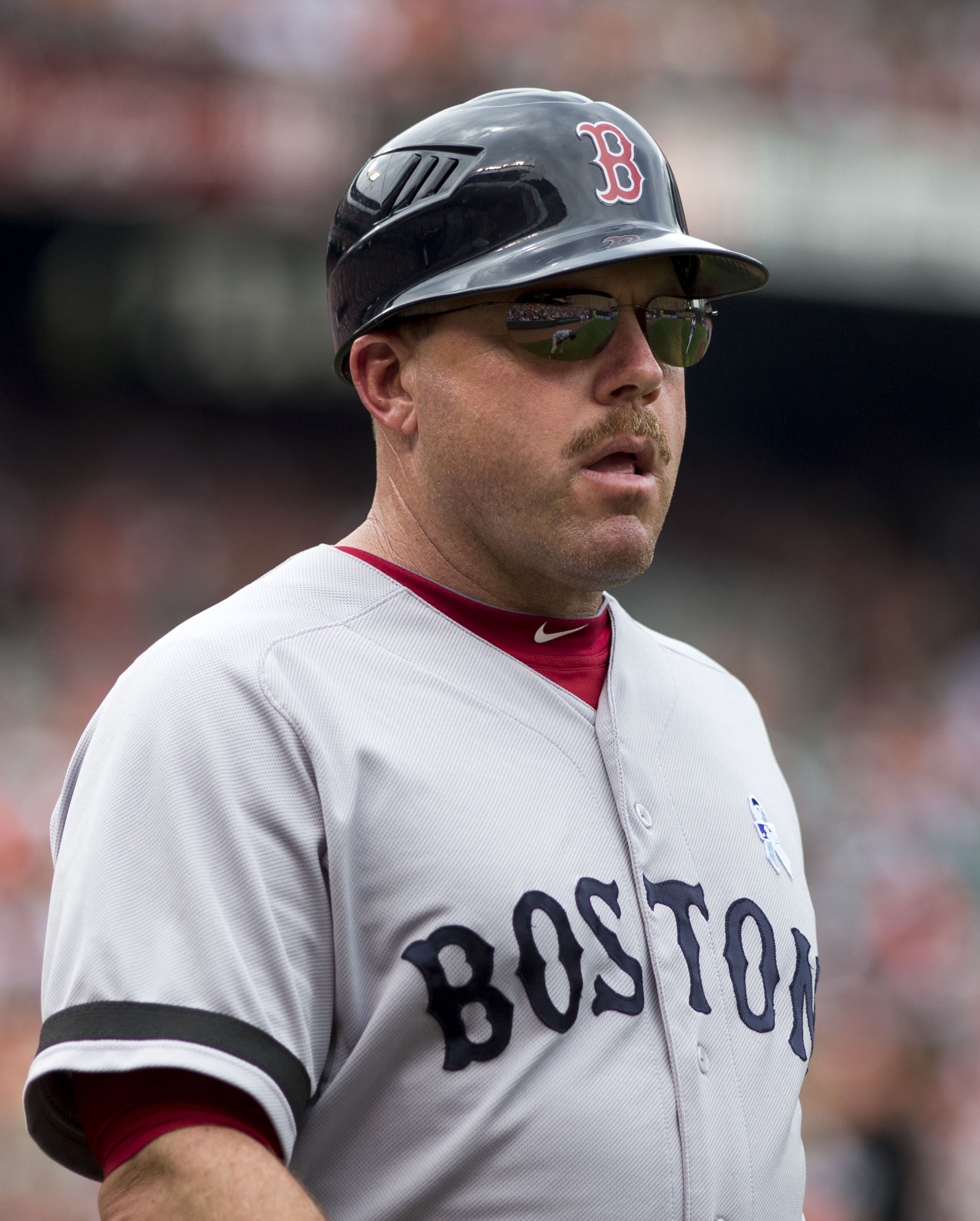 Boston Red Sox coach Arnie Beyeler – Boston Red Sox at Baltimore Orioles June 16, 2013